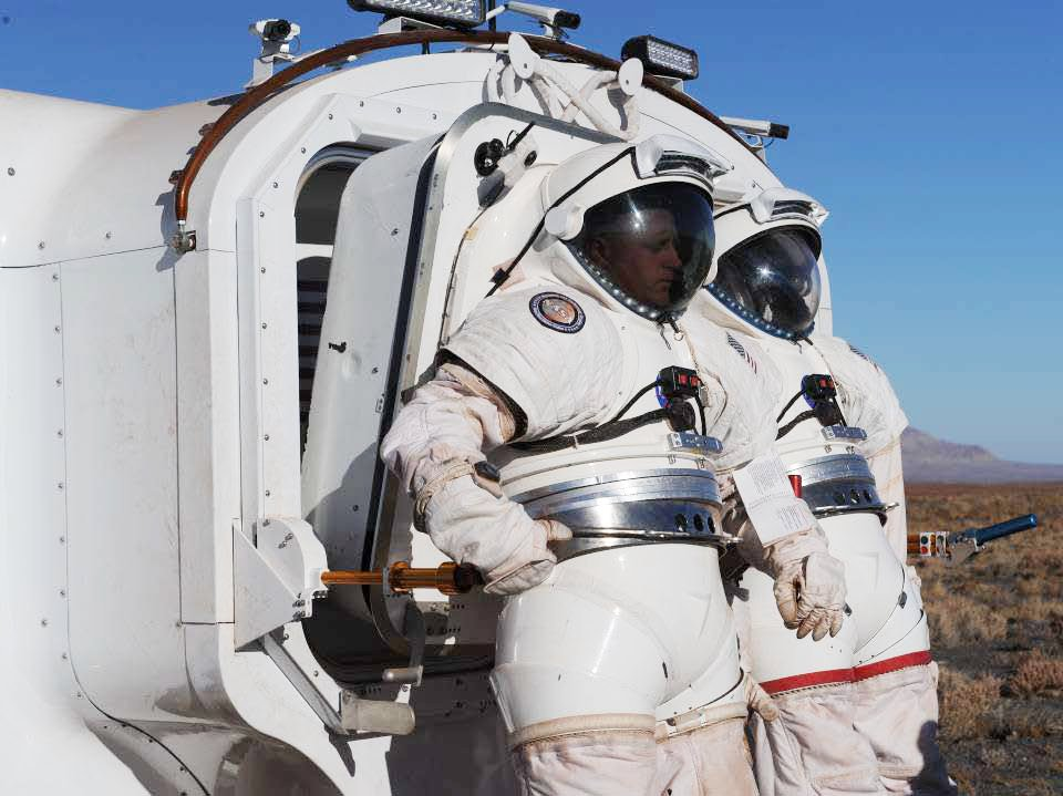 None.